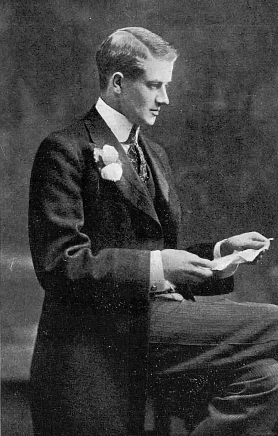 Portrait of Herbert Vivian